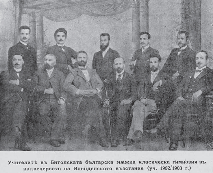 Bulgarian teachers in Bitola